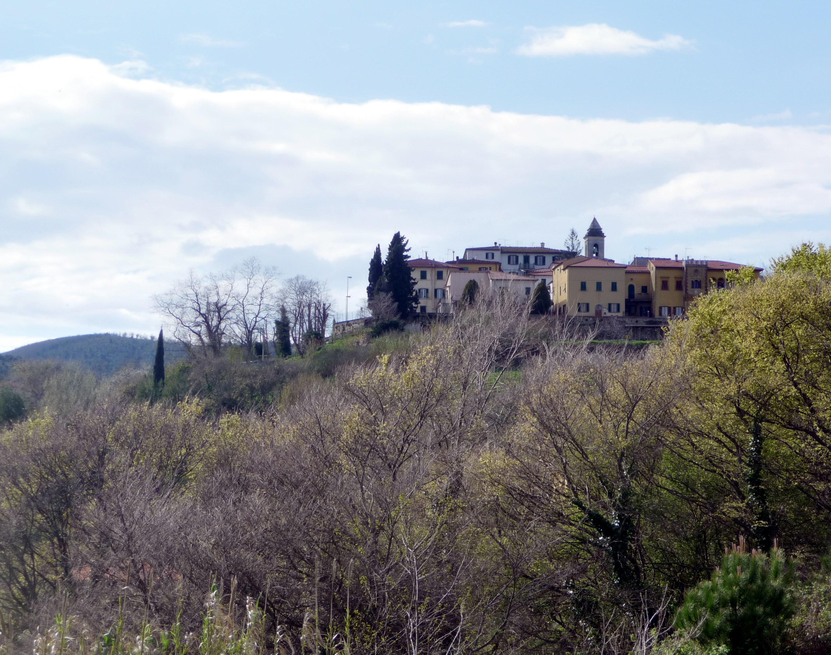 Colognole, Collesalvetti, Province Livorno, Tuscany, Italy